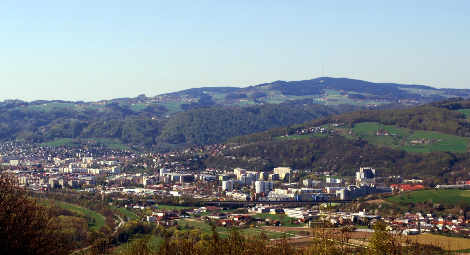 Panorama of city district "St. Magdalena" in Linz, Austria.